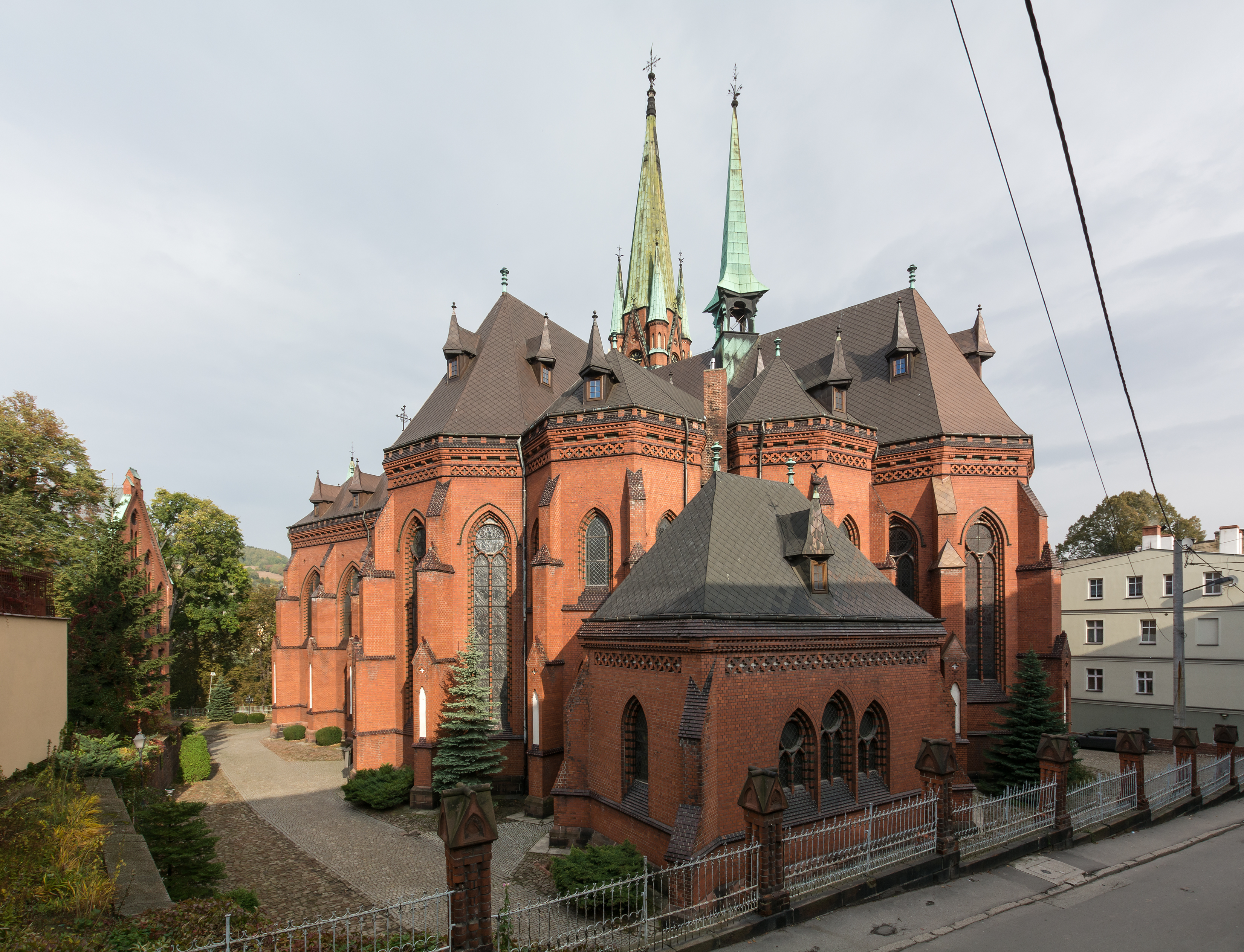 Saint Nicholas church in Nowa Ruda